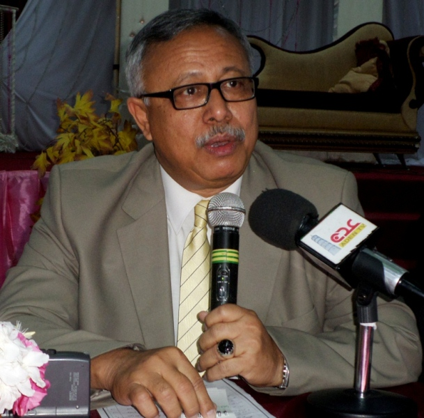 SAMSUNG CAMERA PICTURES